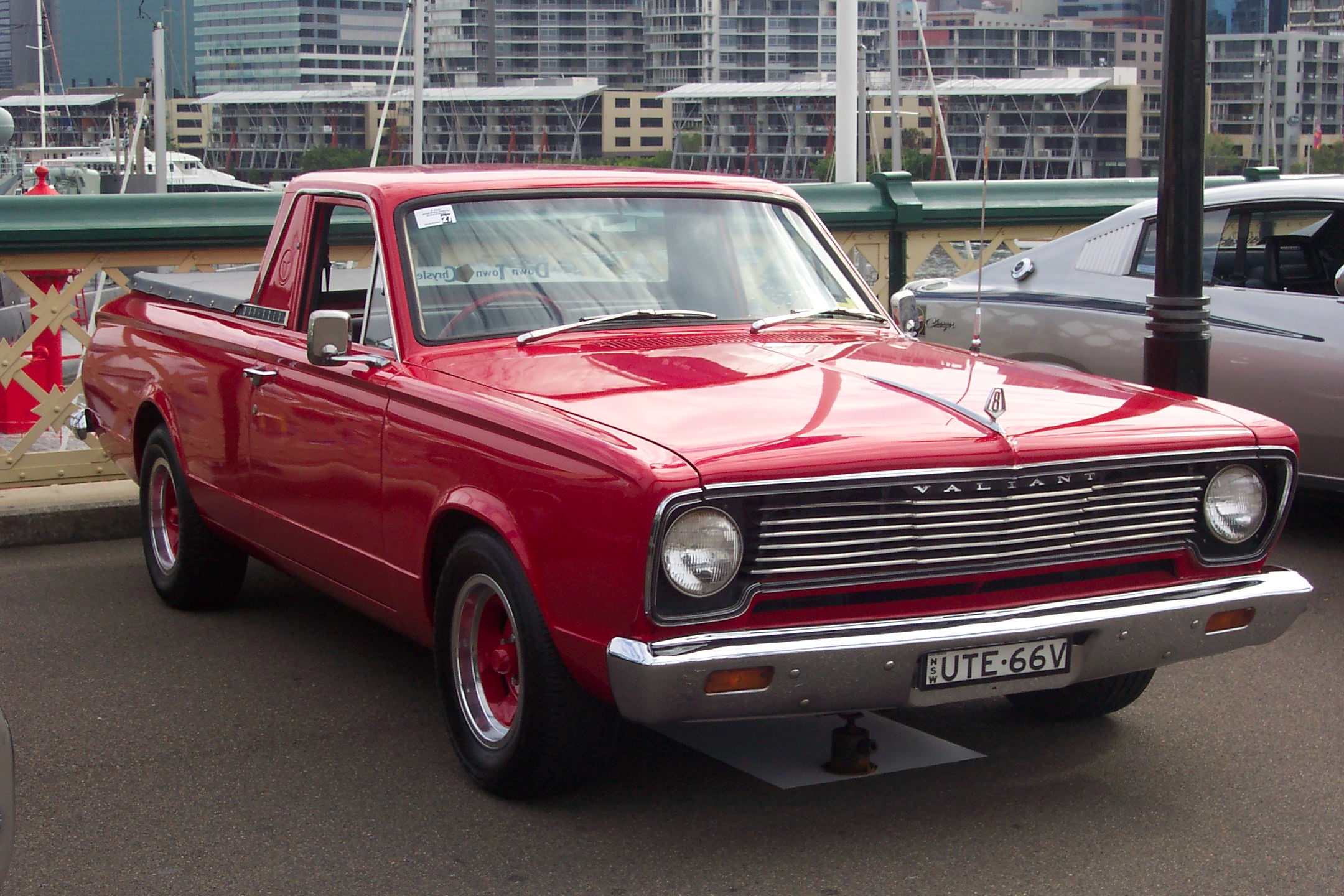 1966 Chrysler VC Valiant Wayfarer ute. Taken at the Chrysler & Valiant Owners Association 2004 Display Day, held on Pyrmont Bridge, a historic swing bridge that spans Darling Harbour in Sydney.